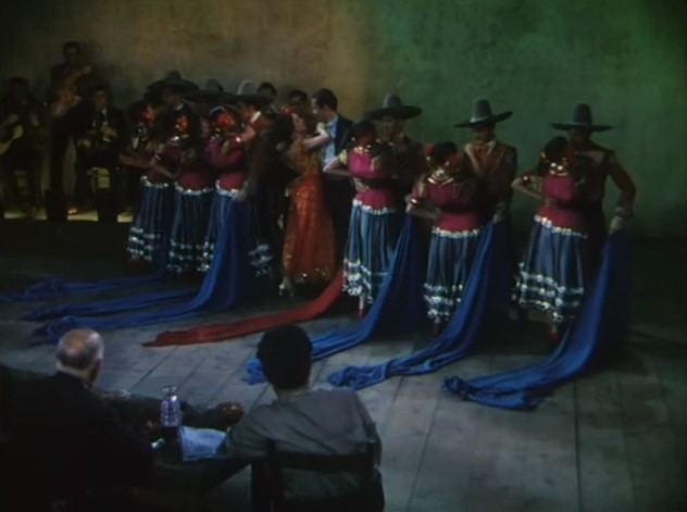 Scene from the american short film La Cucaracha - cropped screenshot